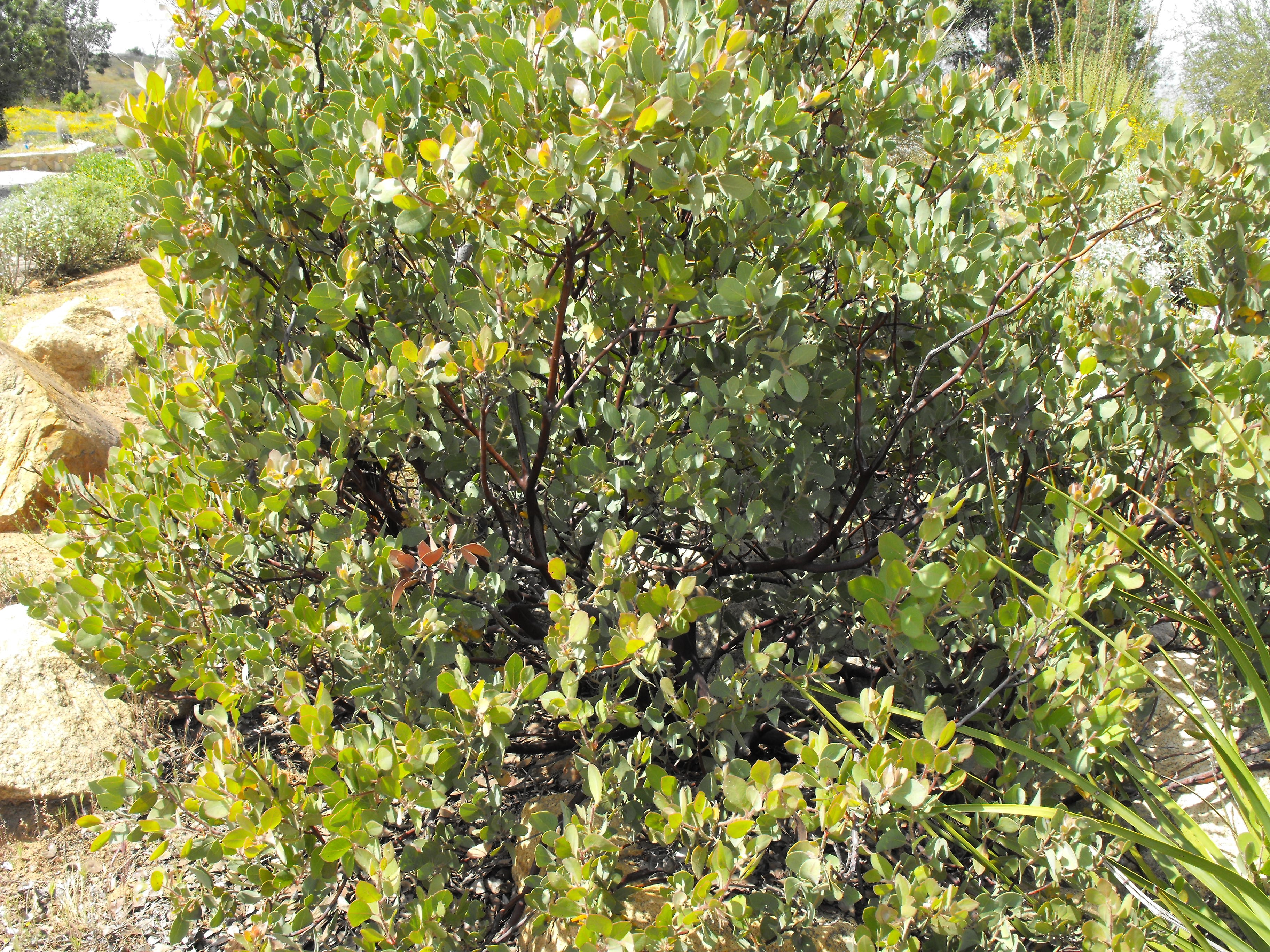 Arctostaphylos glandulosa ssp. crassifolia — Del Mar manzanita. At the San Diego Zoo Safari Park, Escondido, San Diego County, California, U.S. Identified by sign.